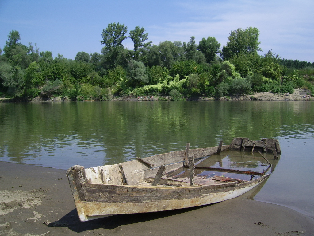 Dead boat on the Tisza.